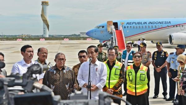 Jokowi arrived at Kertajati International Airport and gave a speech